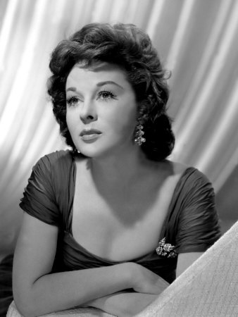 Promotional photograph of actor Susan Hayward (1940s)